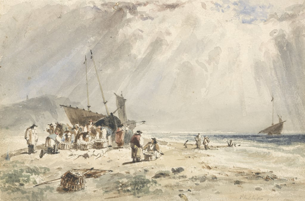 Watercolor painting by Giles Firman Phillips (1780-1867)